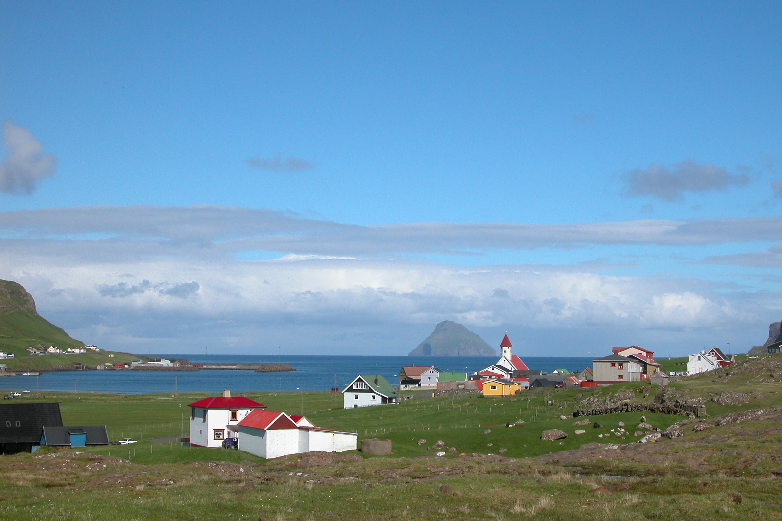 The village Hvalba in the Faroes (Faroes gallery). Føroyskt: Hvalbiar bygd á Suðuroynni.